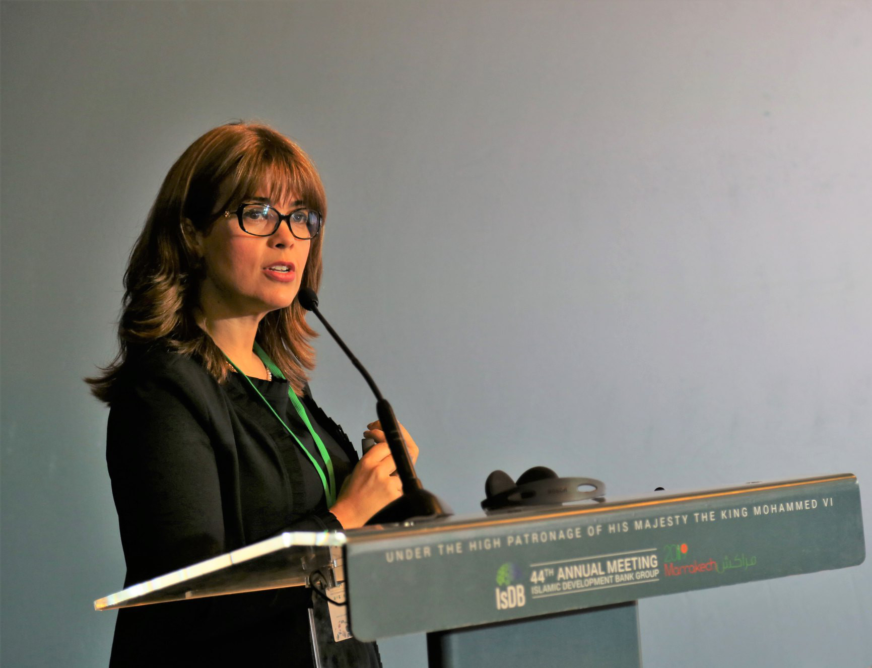 Dr Elouafi, Director General of the International Center for Biosaline Agriculture (ICBA)